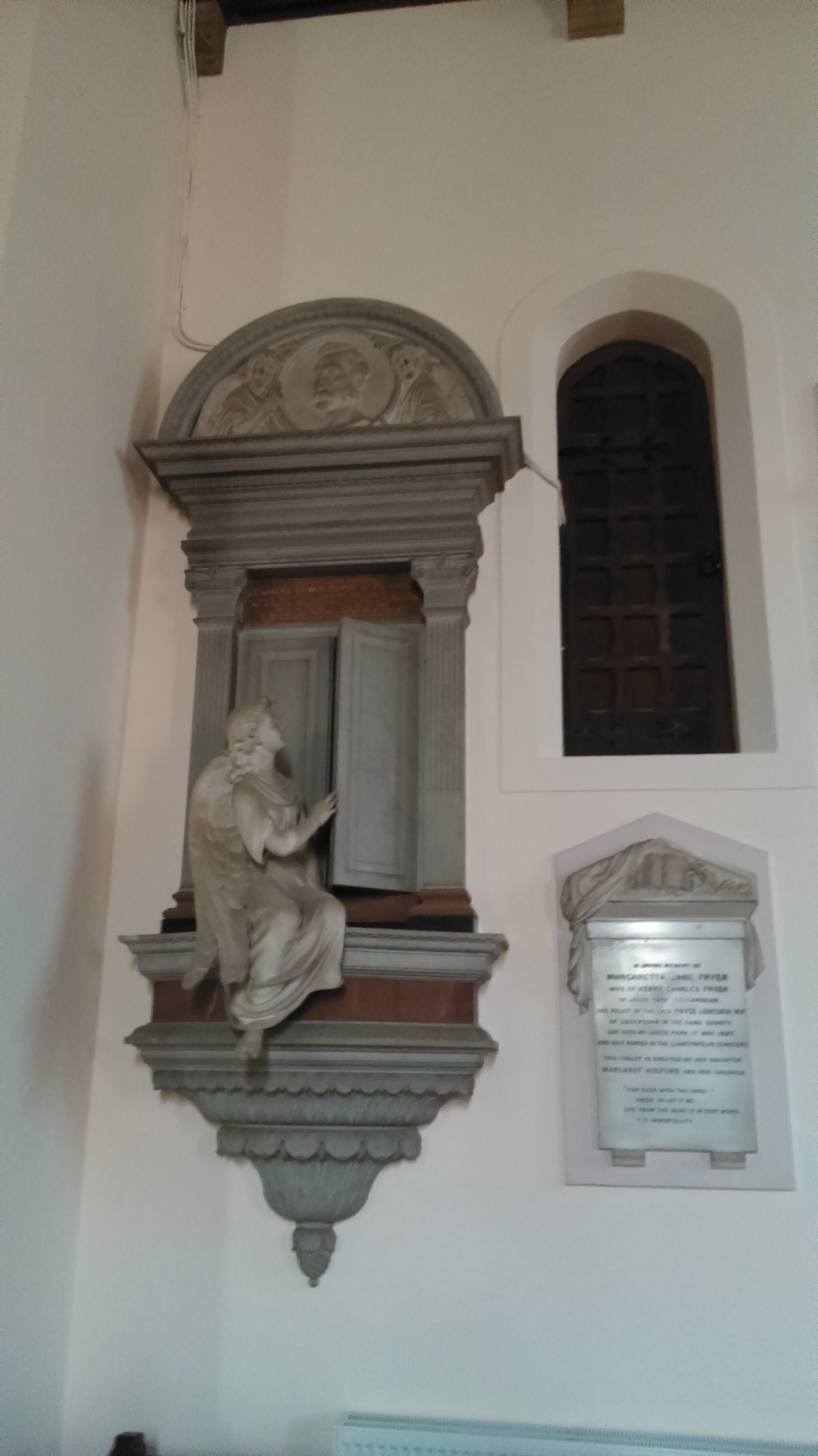 Monuments in chancel, and entrance to roof loft, which is reached via a short semi-circular staircase from a door just above ground level, to the right